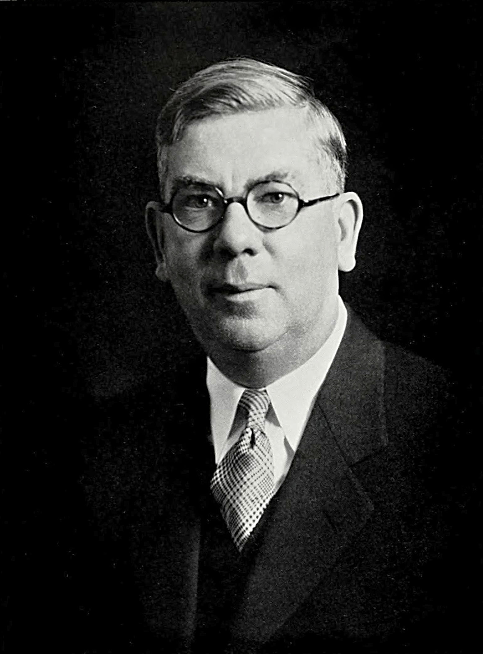 Portrait of William P. Yoerg during his tenure as mayor of the Holyoke, Massachusetts, and proprietor of Yoerg's Garage